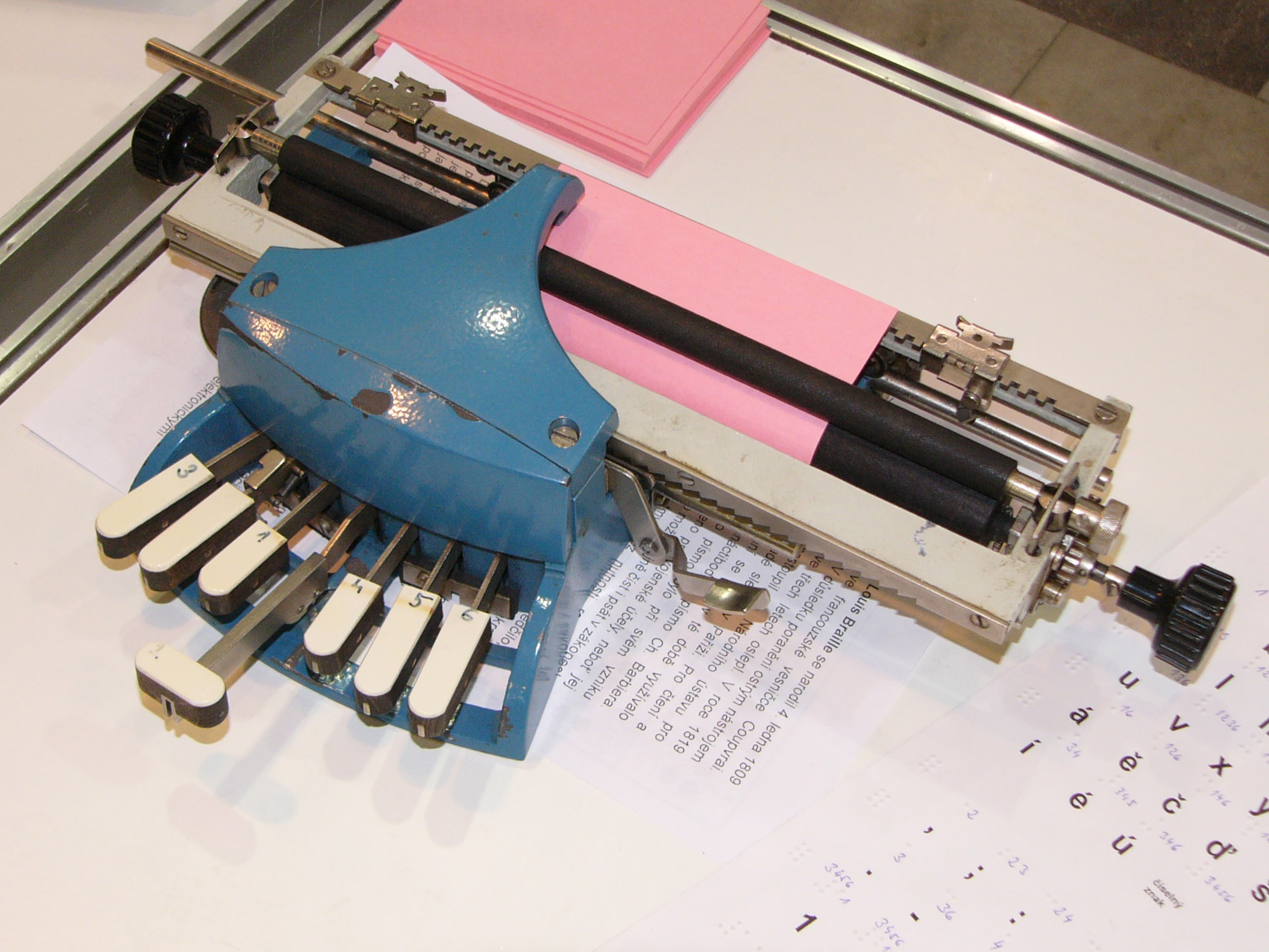 Braille Writer